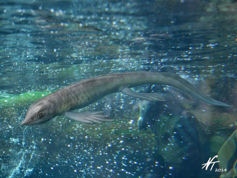 Life reconstruction of Cartorhynchus lenticarpus